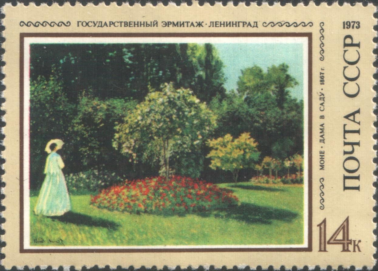 USSR stamp